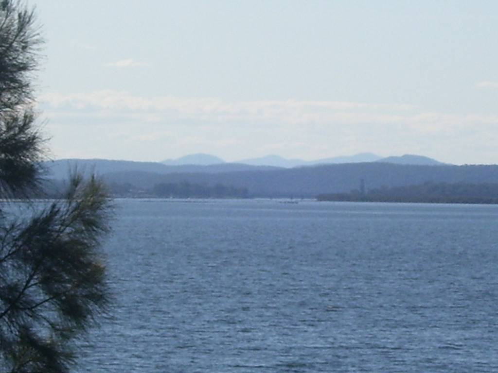 Karuah (centre of frame) seen from Tanilba Bay, approximately 7km away across Port Stephens.